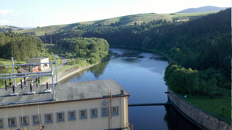 Orava river - view from reservoir dam